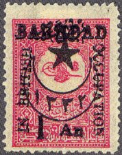 Stamp of British post in Baghdad (British Occupation), Mesopotamia, 1917, 1a on 20pa carmine, Scott #N20.